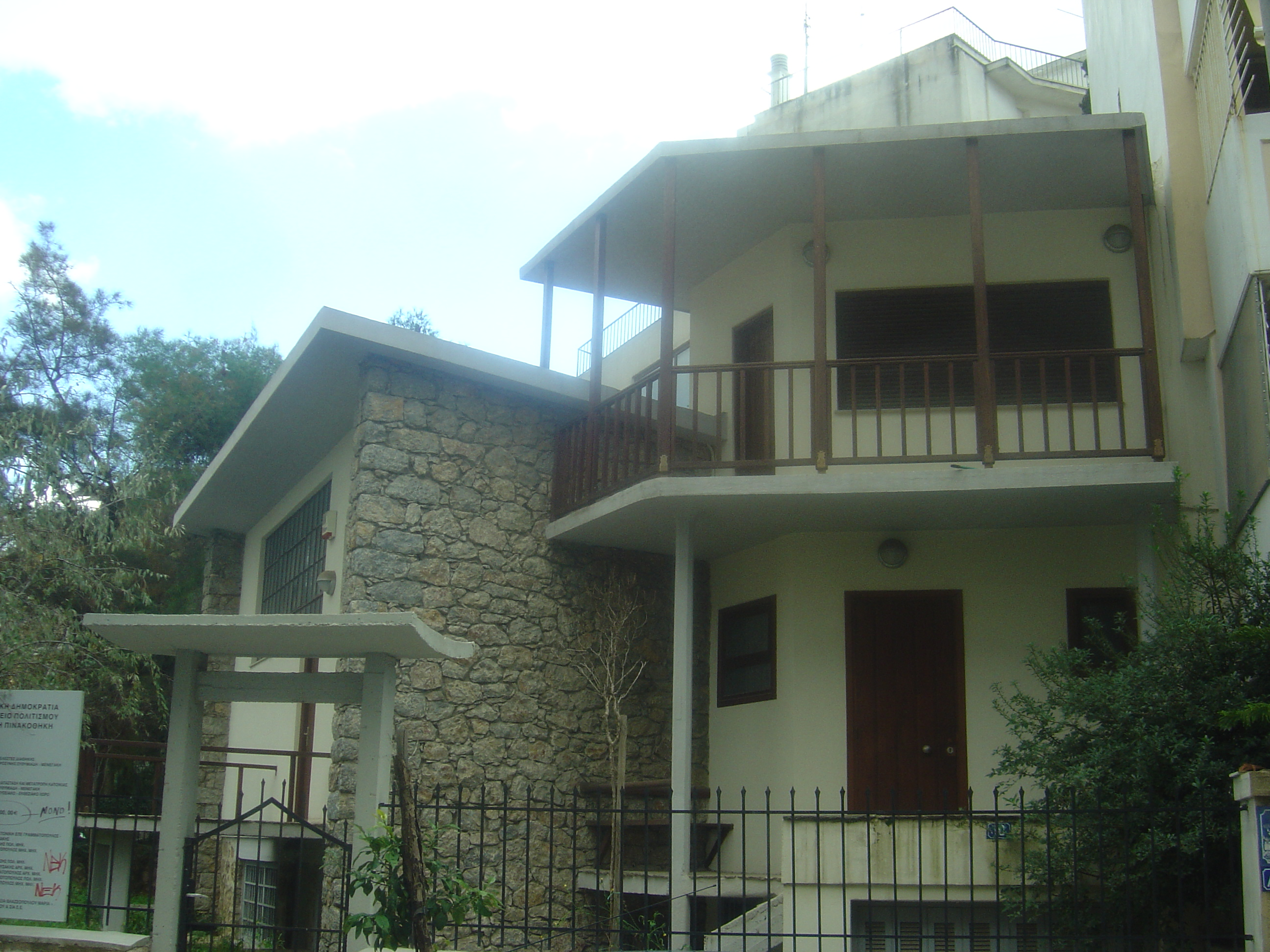 House of Frosso Efthimiadi - Menegaki, Greek sculptress, Athens